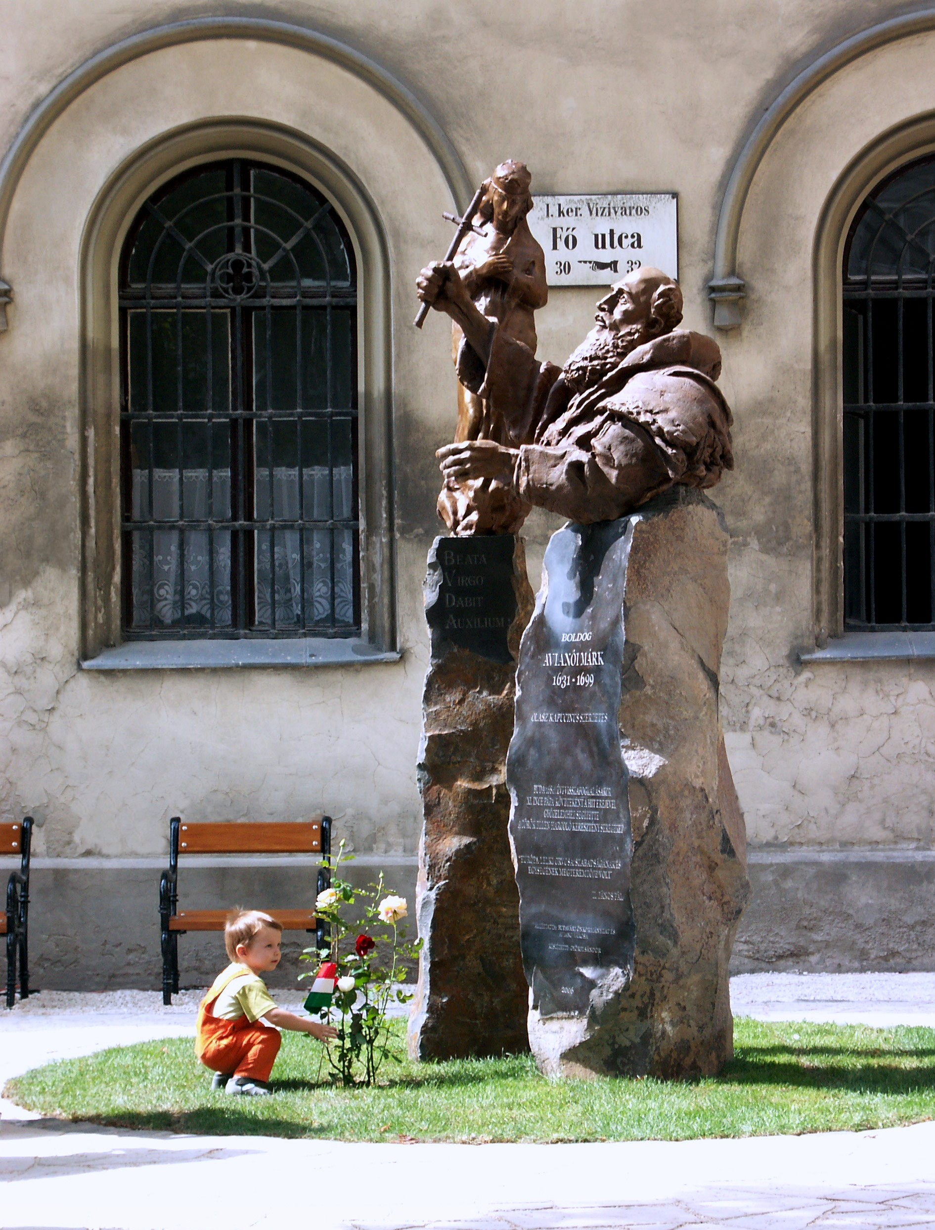 Marco d´Aviano